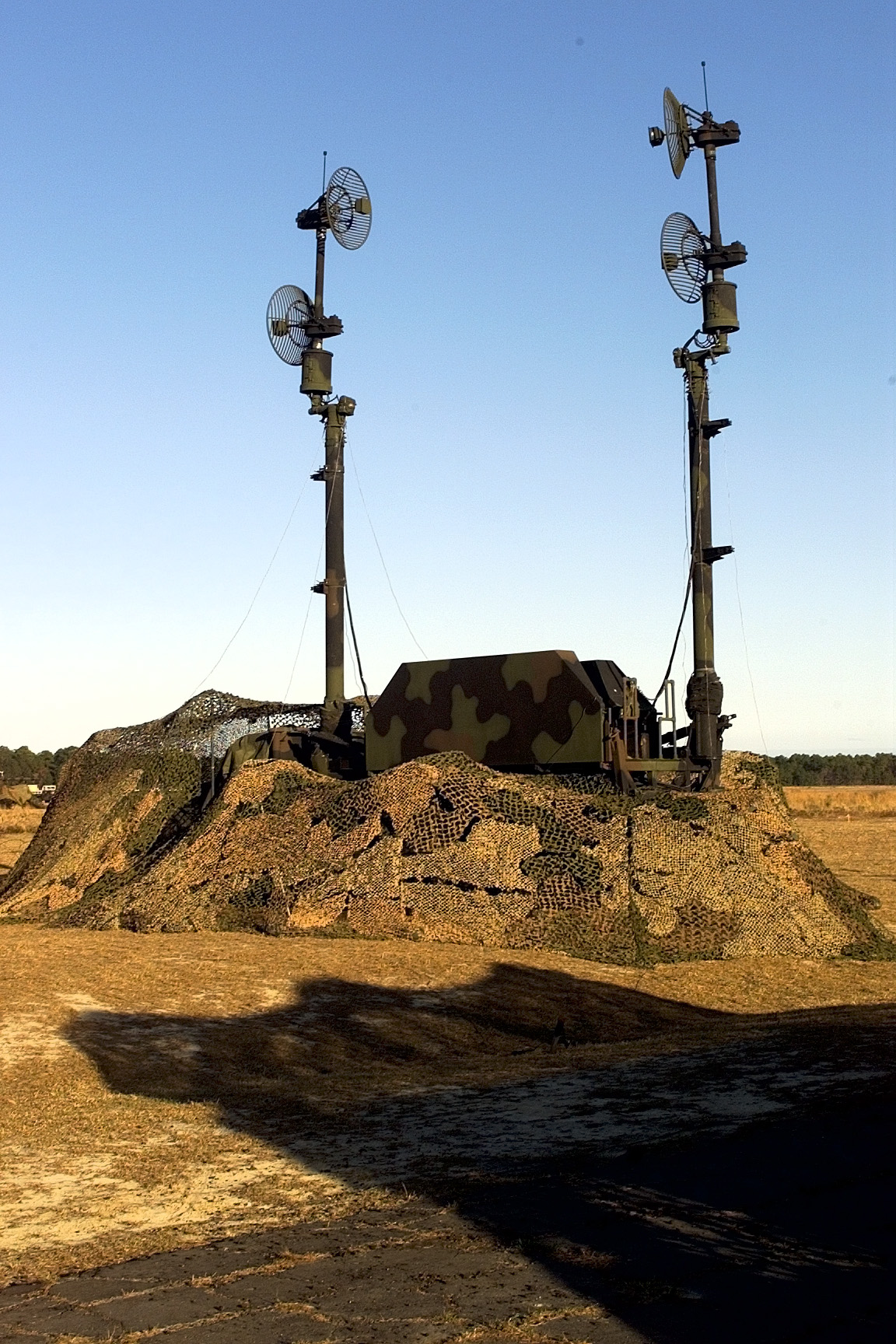 Patriot Antenna Mast Group (AMG), a 4 kW UHF communications array.